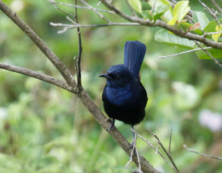 Indian Robin Saxicoloides fulicatus, Wilpattu National Park, Sri Lanka